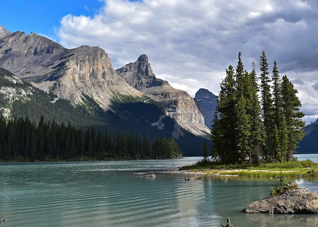 Mount Paul seen from Spirit Island at Maligne Lake, Jasper National Park